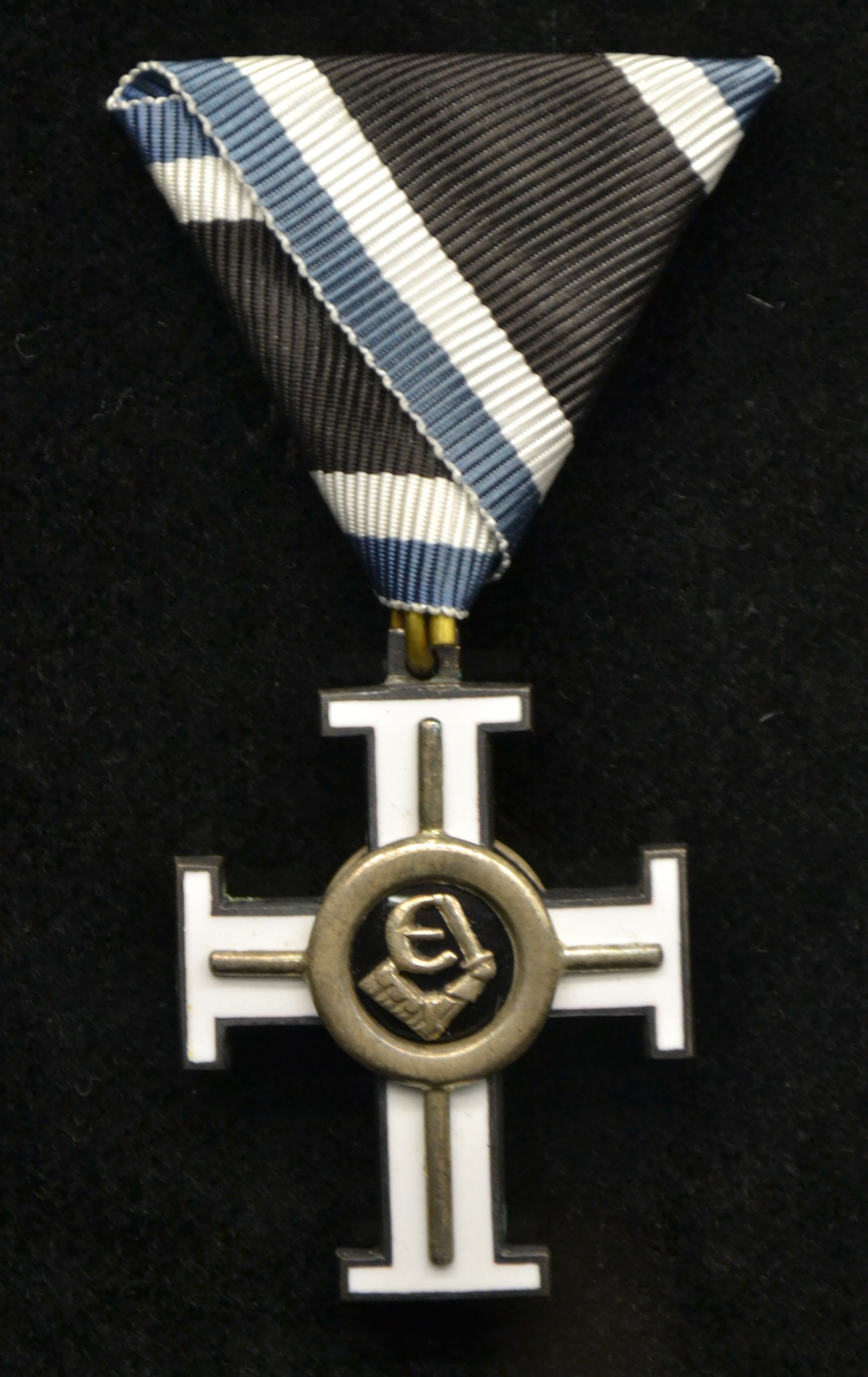 Estonia. Cross of Liberty, 1st grade 3rd class. The exhibition of the Estonian State Decorations at the National Library of Estonia in Tallinn.